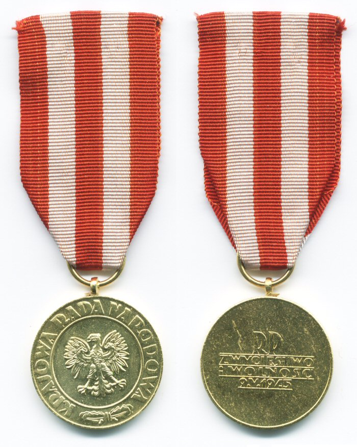 Medal Zwycięstwa i Wolności 1945 (Victory and Freedom 1945 Medal) - Polish military award, awarded in 1945-1999 to commemorate a victory in World War II. (Second version) Own collection.